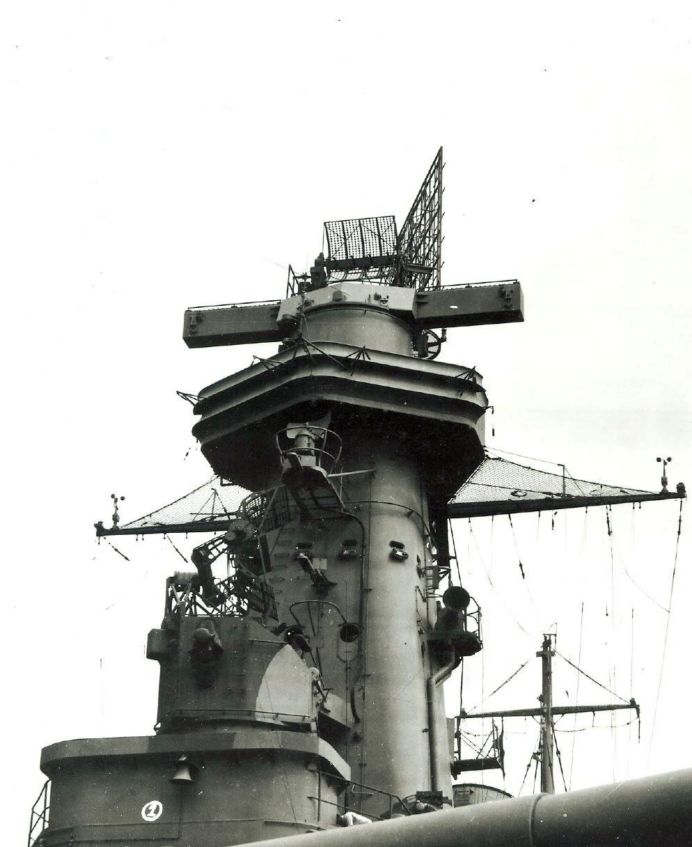 Detail shot of the tower foremast taken 18 August 1942 at New York Navy Yard just prior to her transfer to the Pacific. Of notable interest is the location of the surface search radar SG unit on the forward face of the tower.